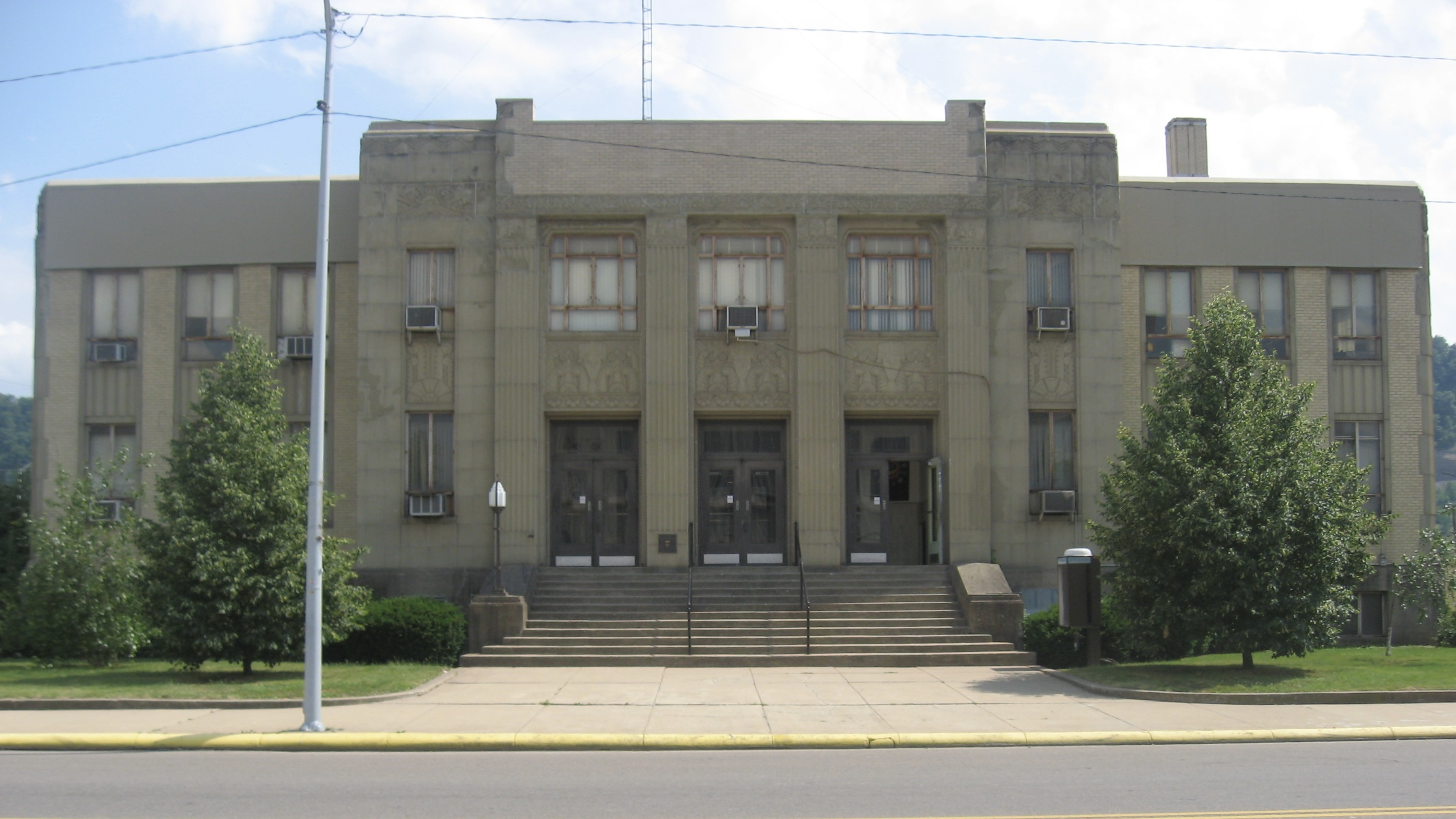 This is Portsmouth, Ohio's city hall.